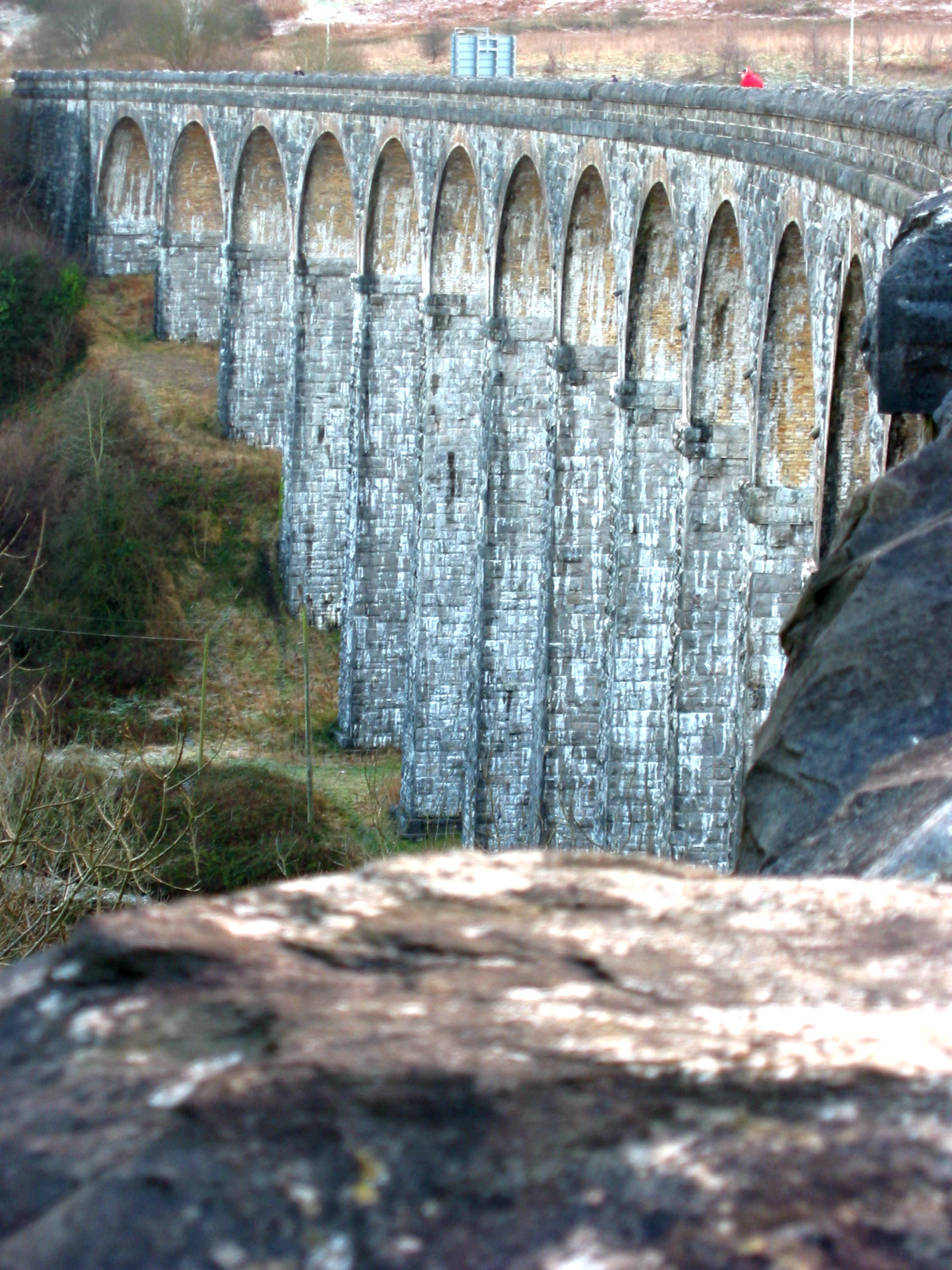 The Cefn Coed Viaduct in Merthyr Tydfil, Wales.